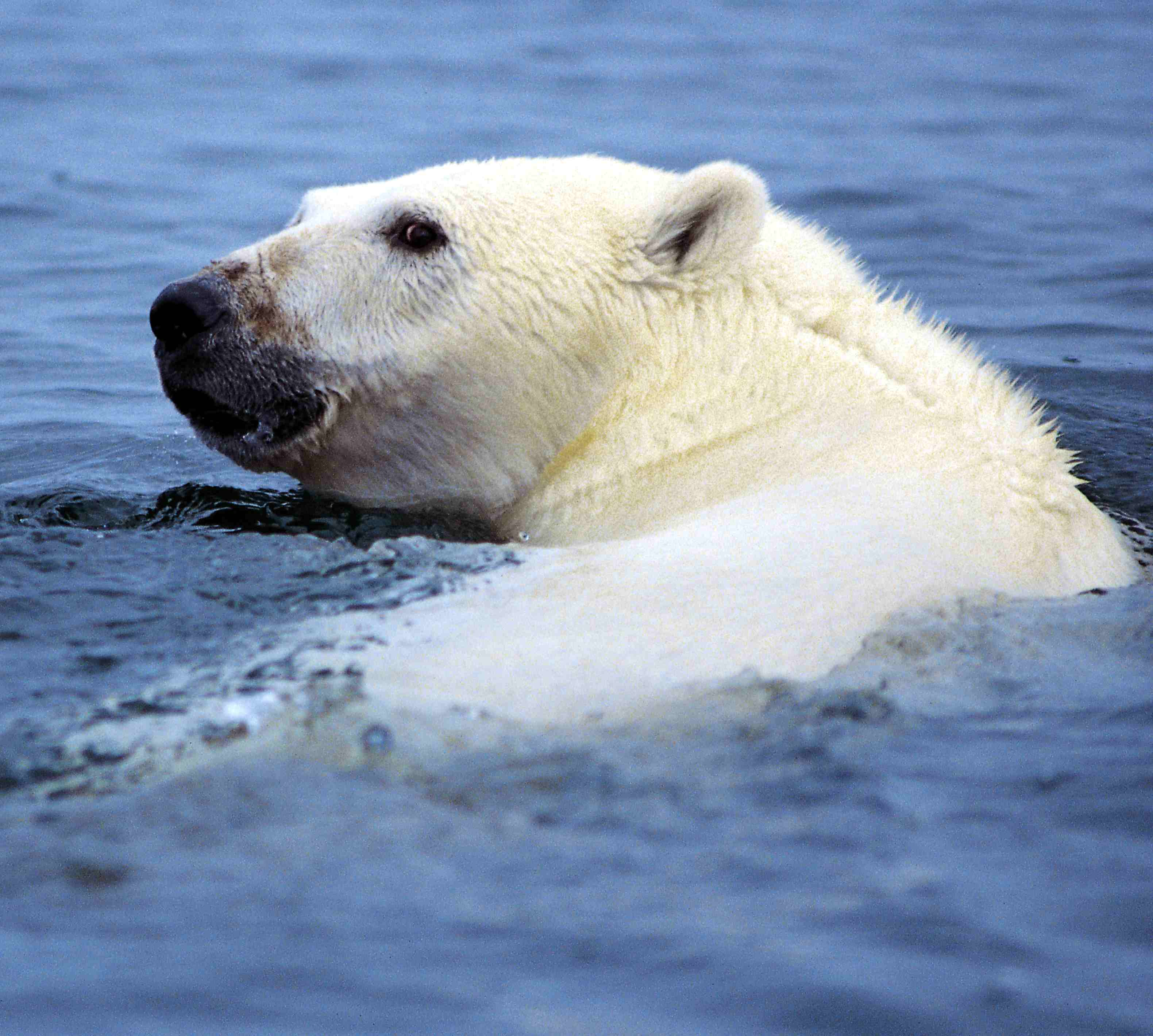 Polar bear (Ursus maritimus) in Wager Bay (Ukkusiksalik National Park, Nunavut, Canada)